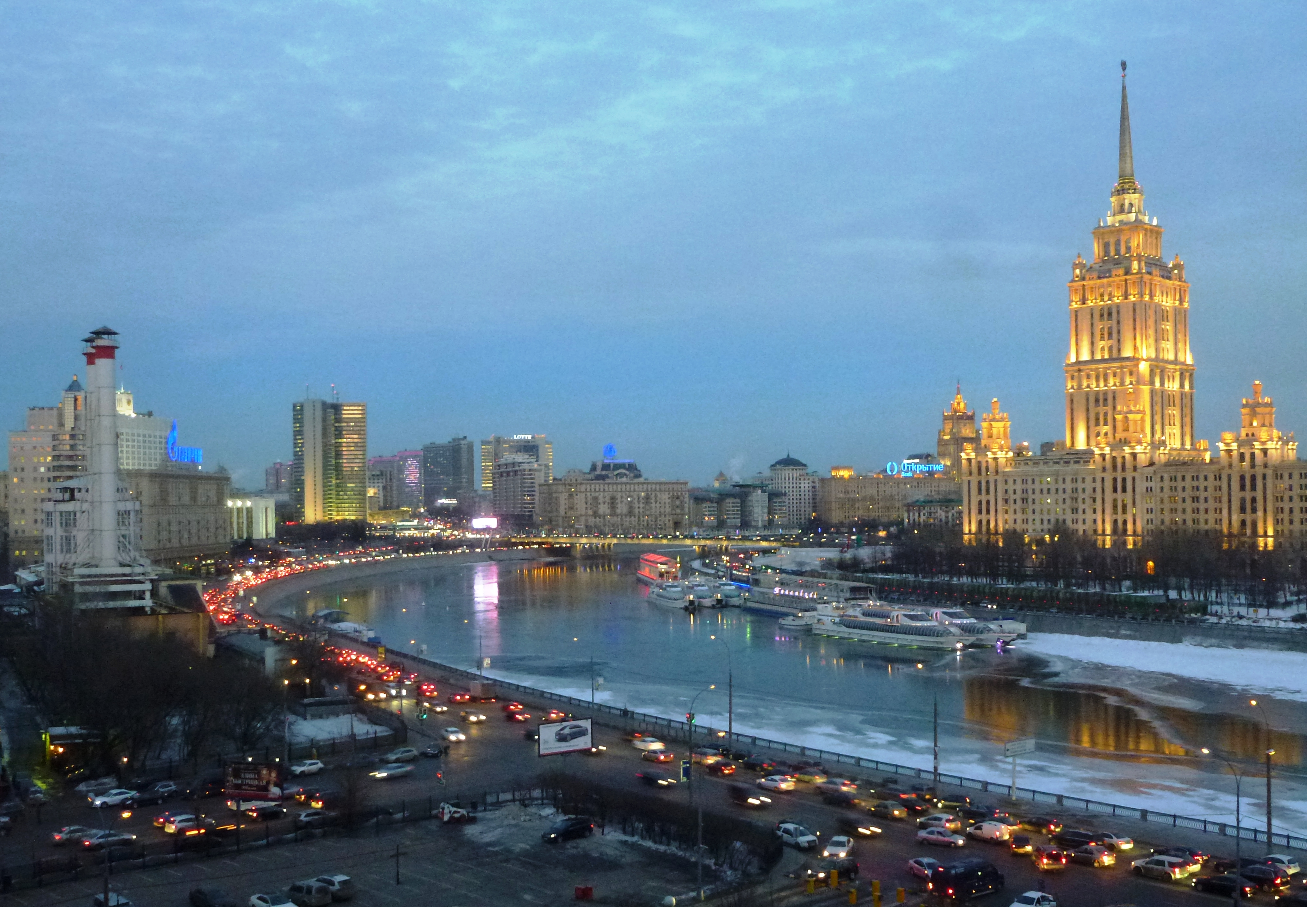 Hotel Ukraina with Moskva river at night